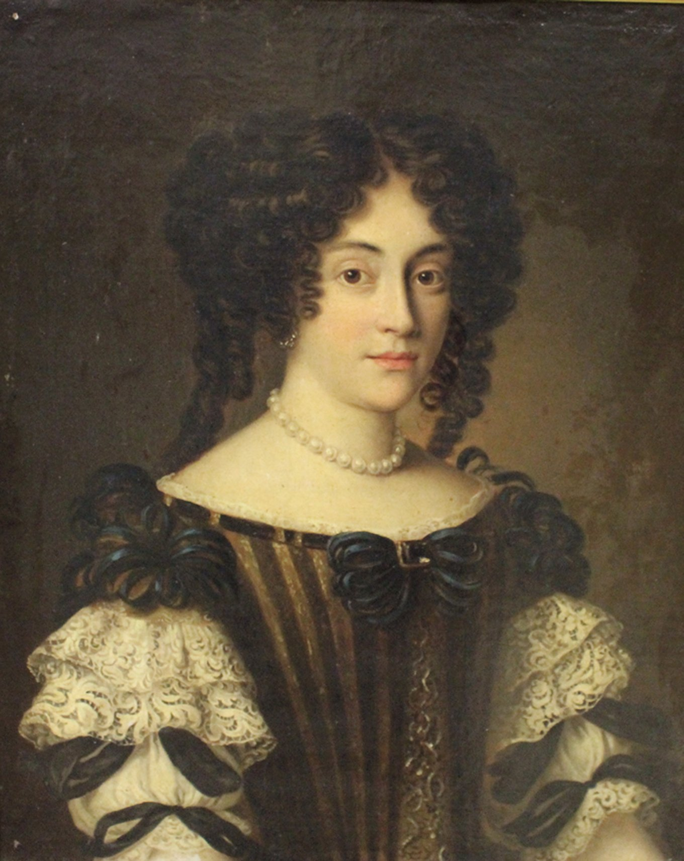 Marie Mancini